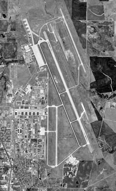 USGS orthophoto of Sheppard Air Force Base and Wichita Falls Municipal Airport in Texas, United States